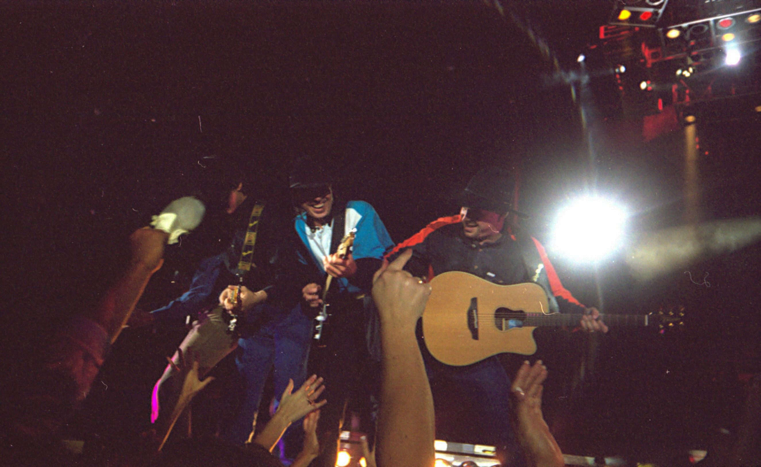 The last time I saw him play. It was a great concert that lead to an interesting night of events.